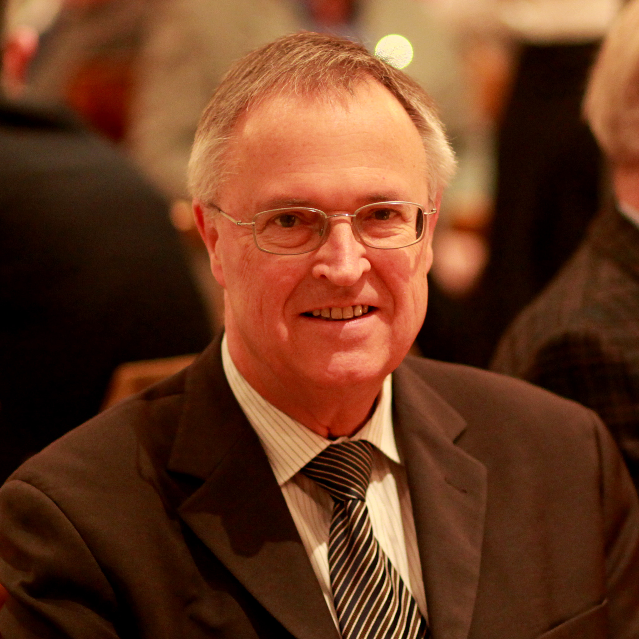 Hans Eichel, Member of the Bundestag, former State Premier of Hesse (Germany) and former Minister of Finance.